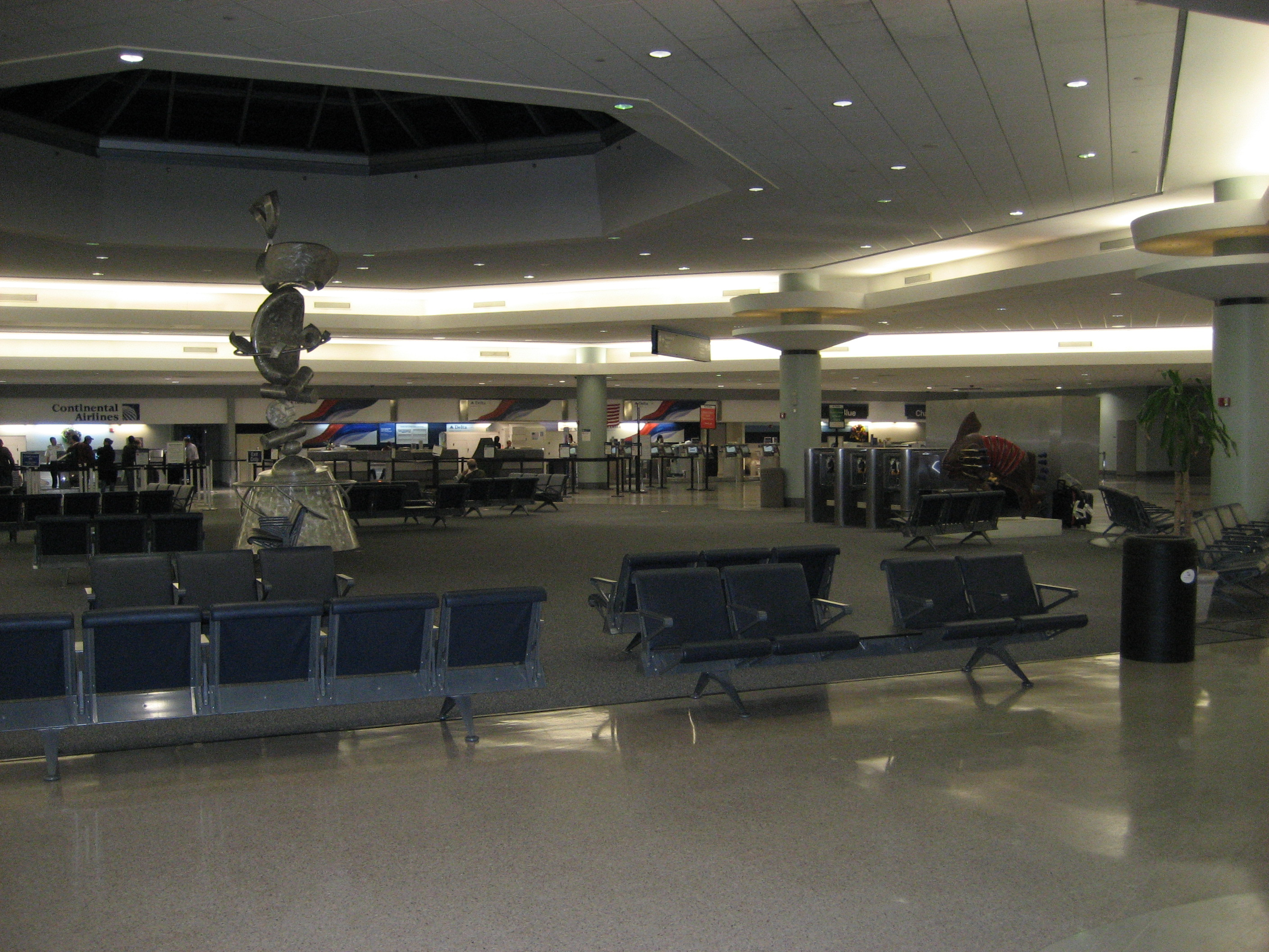 New Orleans Armstrong Airport terminal with artwork, Kenner, Louisiana